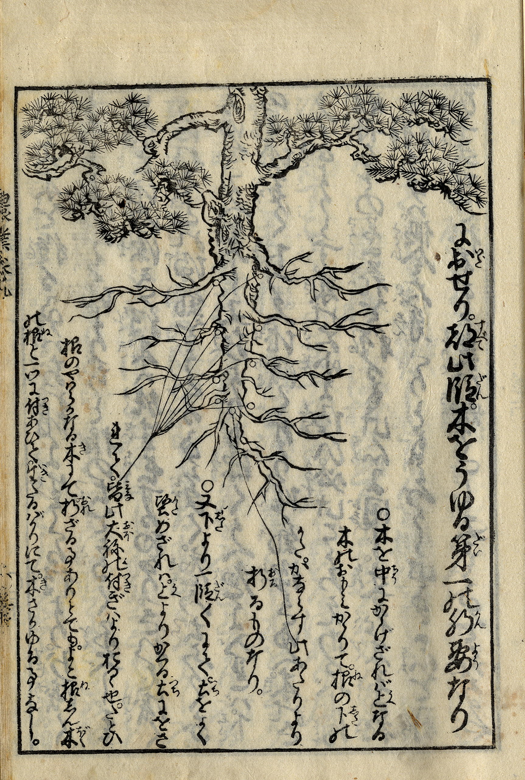 Miyazaki Yasusada: Nōgyō zensho (Compendium on agriculture). First scientific Japanese book on agriculture. First edition printed in 1697, second edition in 1782.